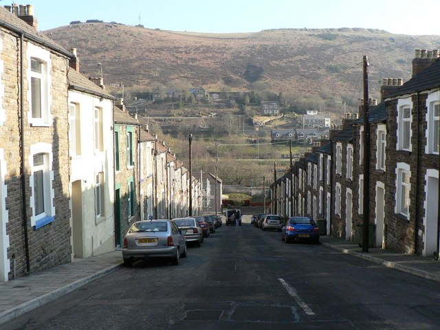 Brithdir Original description: Brithdir: Herbert Street A small street similar to countless others in the many towns and villages of the Welsh Valleys.